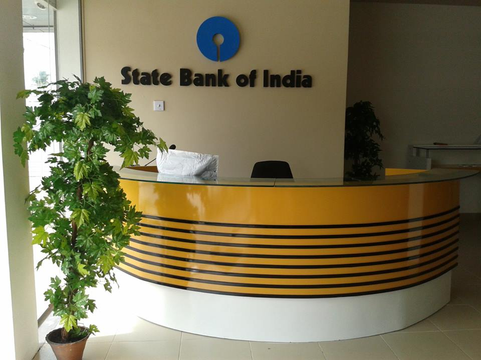 State Bank of India Jaffna Branch in Sri Lanka